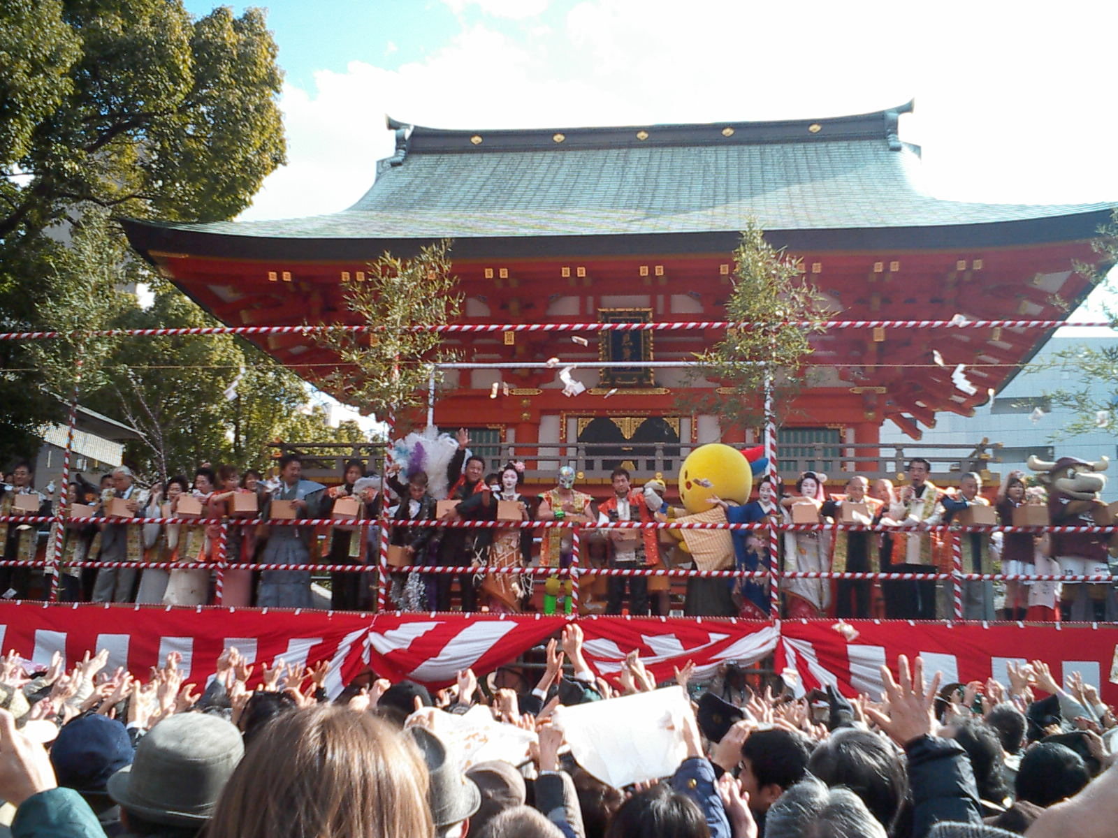 Celebrations for Setsubun in Ikuta Jinja, Kobe 03 February 2006.